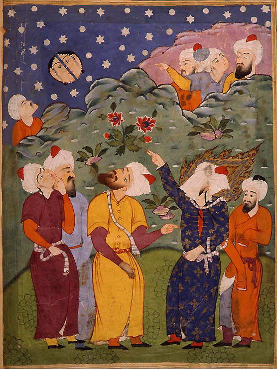 Mohammed Splits the Moon. Illustration taken from a "Falnameh," a sixteenth century Persian book of prophesies. Artist unknown; watercolor painting; Mohammed is the veiled figure on the right. Currently housed in The Saxon State Library, Dresden, Germany, part of an exhibition that was displayed at The Library of Congress in 1996.